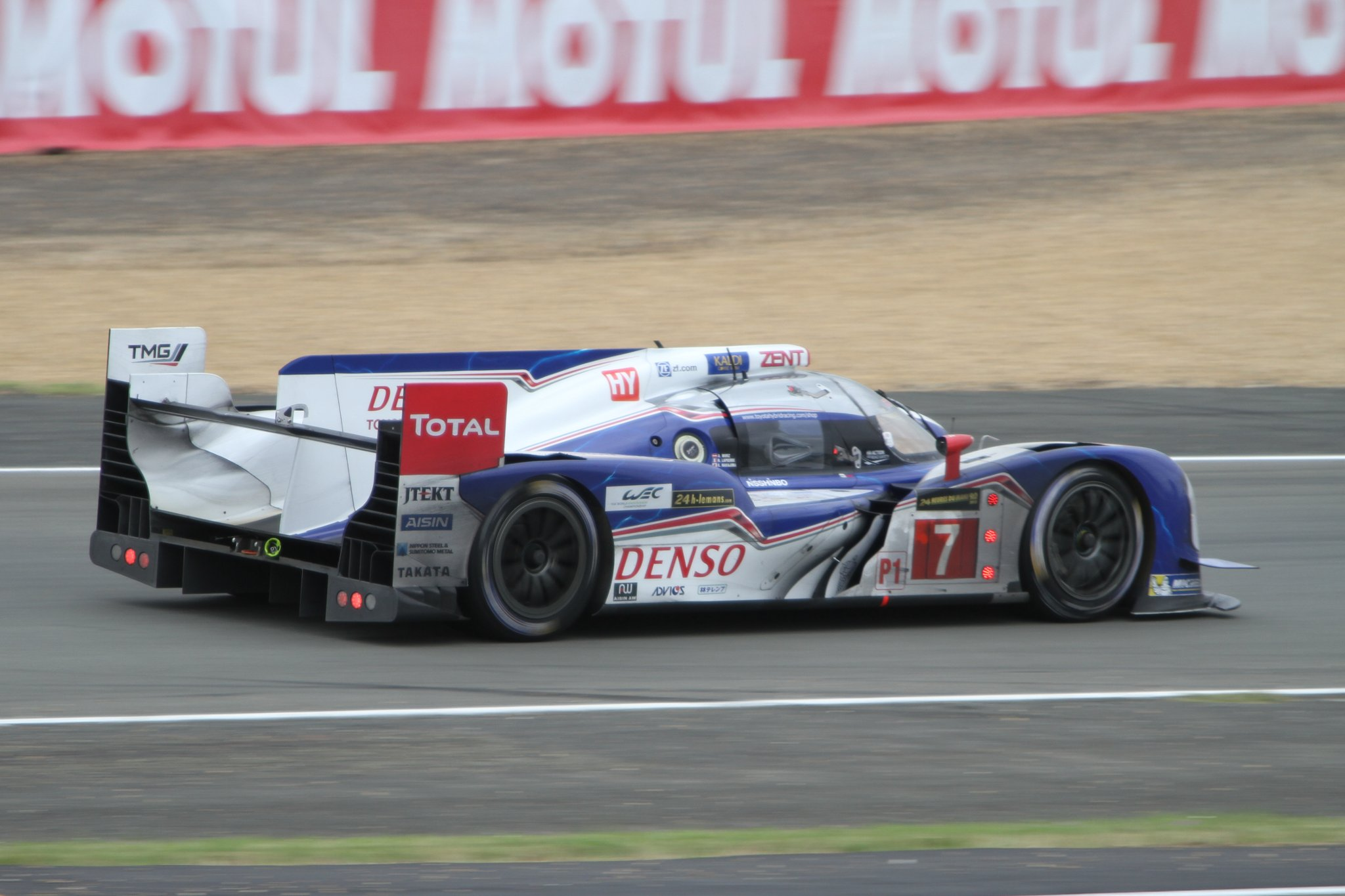 The Toyota TS030 - Hybrid sunday morning at the Le Mans 24